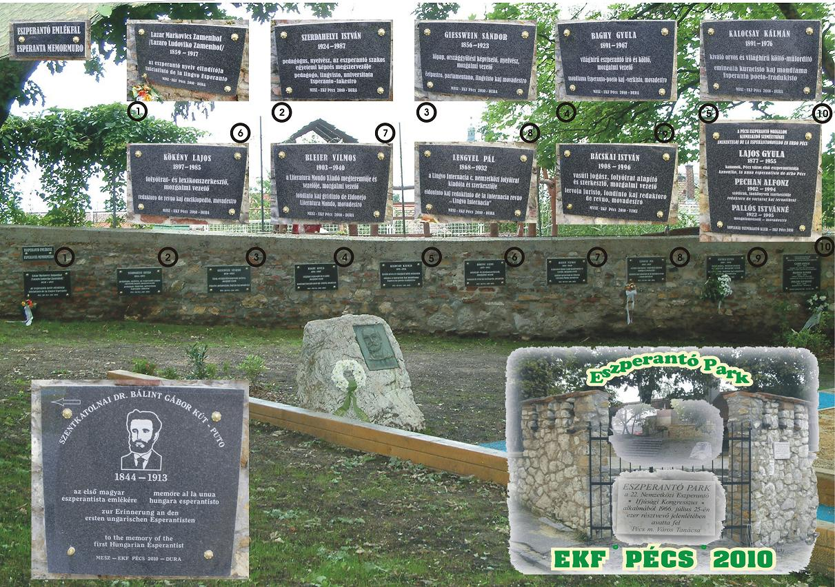 Esperanto Memorial wall Pécs